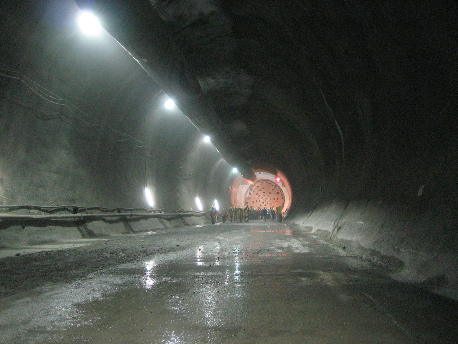 Looking south in the eastern tube of the Gotthard Base Tunnel at Multi-Function Station Faido, Canton Ticino, Switzerland. The tunnel boring machine coming from Bodio made its breakthrough here Sept. 6 2006 under jubilation of a crowd of 2000 VIP, guests and workers after excavating 13.5 km since 2002. Photo taken on an open doors day. Temperature is 28°C (would be around 40°C without cooling), humidity is 100% or above (almost steamy climate) Once completed the 2 km long MFS Faido will be a multi-purpose station 2000 meters below ground level for maintenance and emergency evacuation purposes accessible through a 2.7 km long tunnel with a gradient of more than 12%. The entrance of the access tunnel is in Polmengo TI close to the village of Faido.